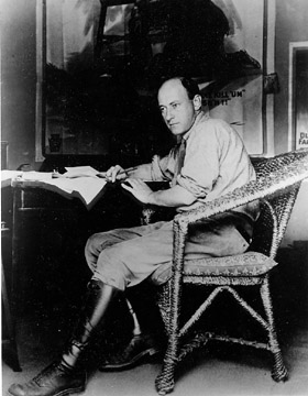 Cecil B. DeMille. Behind him: the poster of The Squaw Man (1914) (according to John Douglas Eames in Paramount Story, Littlehampton Book Services Ltd, 1985)